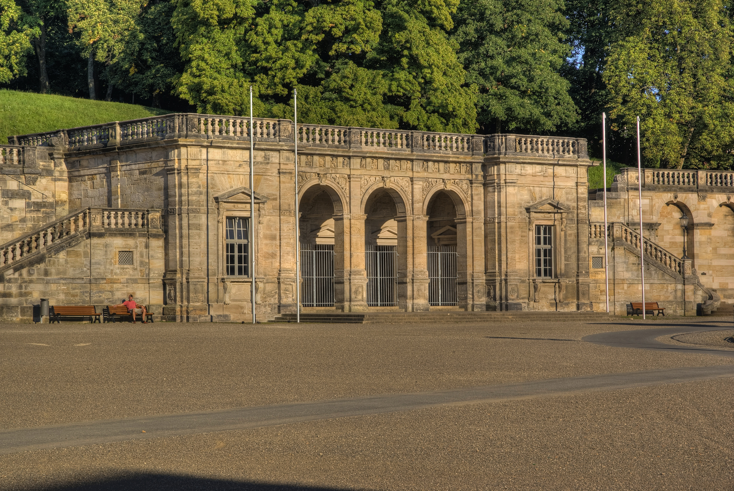 Schlossplatz in Coburg, Bavaria.